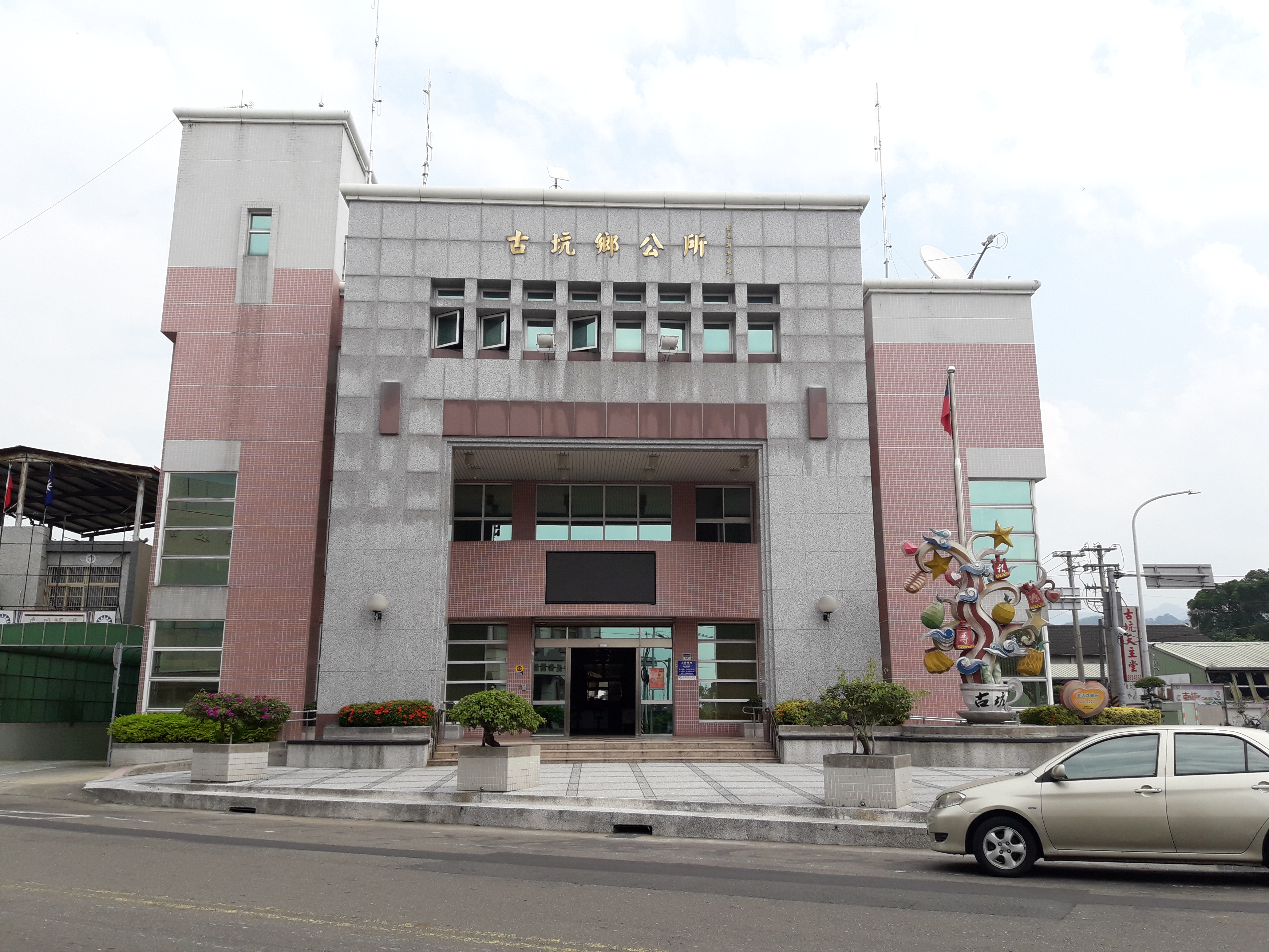 Car parking in front of the Gukeng Township Office Building.